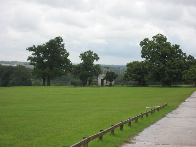 Lytton family mausoleum at Knebworth House, Herts. It is a grade II listed building. The mausoleum is a structure of 1817, designed by J P Papworth and set in Knebworth Deer Park. Last resting place of family members, including: Lady Constance Lytton, daughter of Robert, 1st Earl of Lytton, who continued the struggle for the emancipation of women engaged in by her grandmother Rosina and her great-grandmother Anna Wheeler. Died in 1923 aged 54, but not before Parliament had passed a bill, in January 1918, giving women over 30 the vote. Inscribed on the mausoleum her family has left the following epitaph: “Endowed with a celestial sense of humour, boundless sympathy, and rare musical talent, she devoted the later years of her life to the political enfranchisement of women and sacrificed her health and talents in helping to bring victory to this cause”.